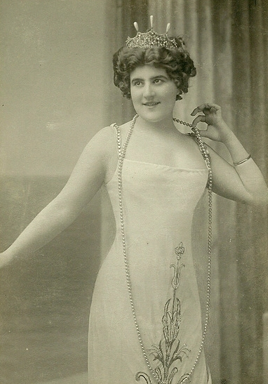 Photograph of the French operatic soprano Zita Brozia as she appeared as Thais in 1908 - cropped version